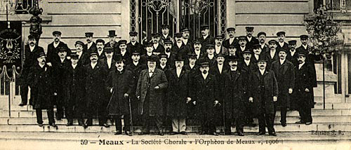 Orphéon de Meaux